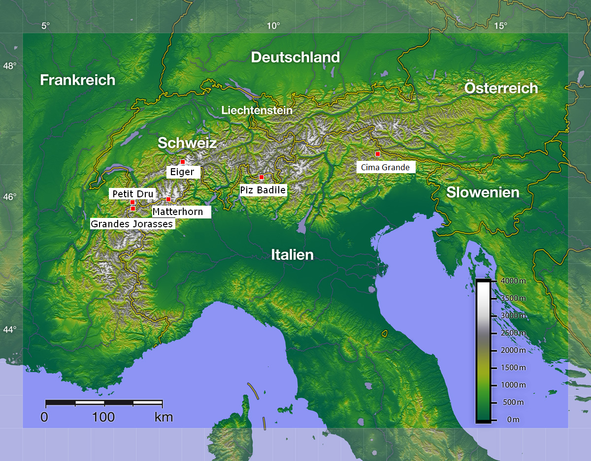 Map of the six great north faces of the Alps